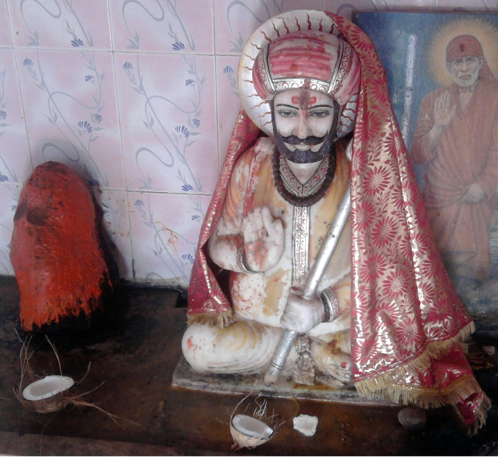 Charangbaba 2013